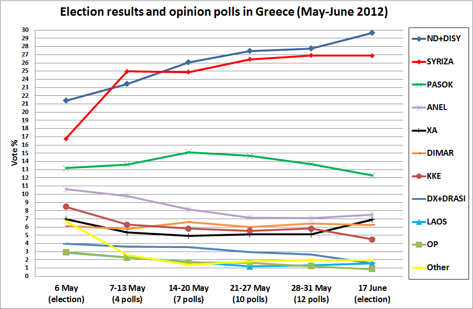 Plot is based upon all available opinion polls data listed in the Greek legislative election, June 2012 article. Polls were sorted into 4 time categories in May 2012 (depending on their "average conduction day"), and the two official election results from May 6 and June 17 was added as start and ending point. All data collected from "raw data method" polls, was recalculated into the "adjusted method" asuming the "undecided voters" would vote the same way as the "decided voters".